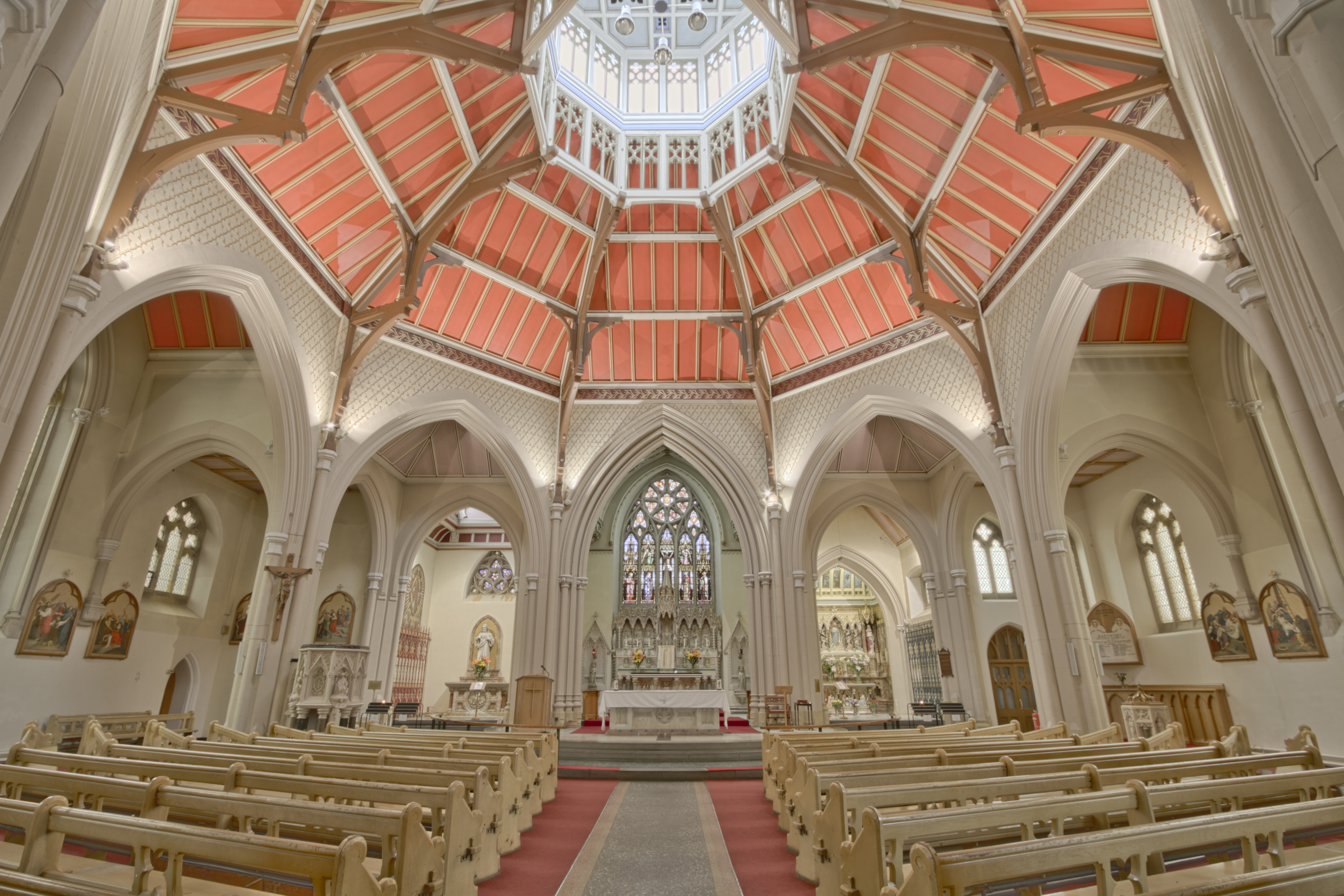 Altar at Sacred Heart RC church. Located in Blackpool, Lancashire